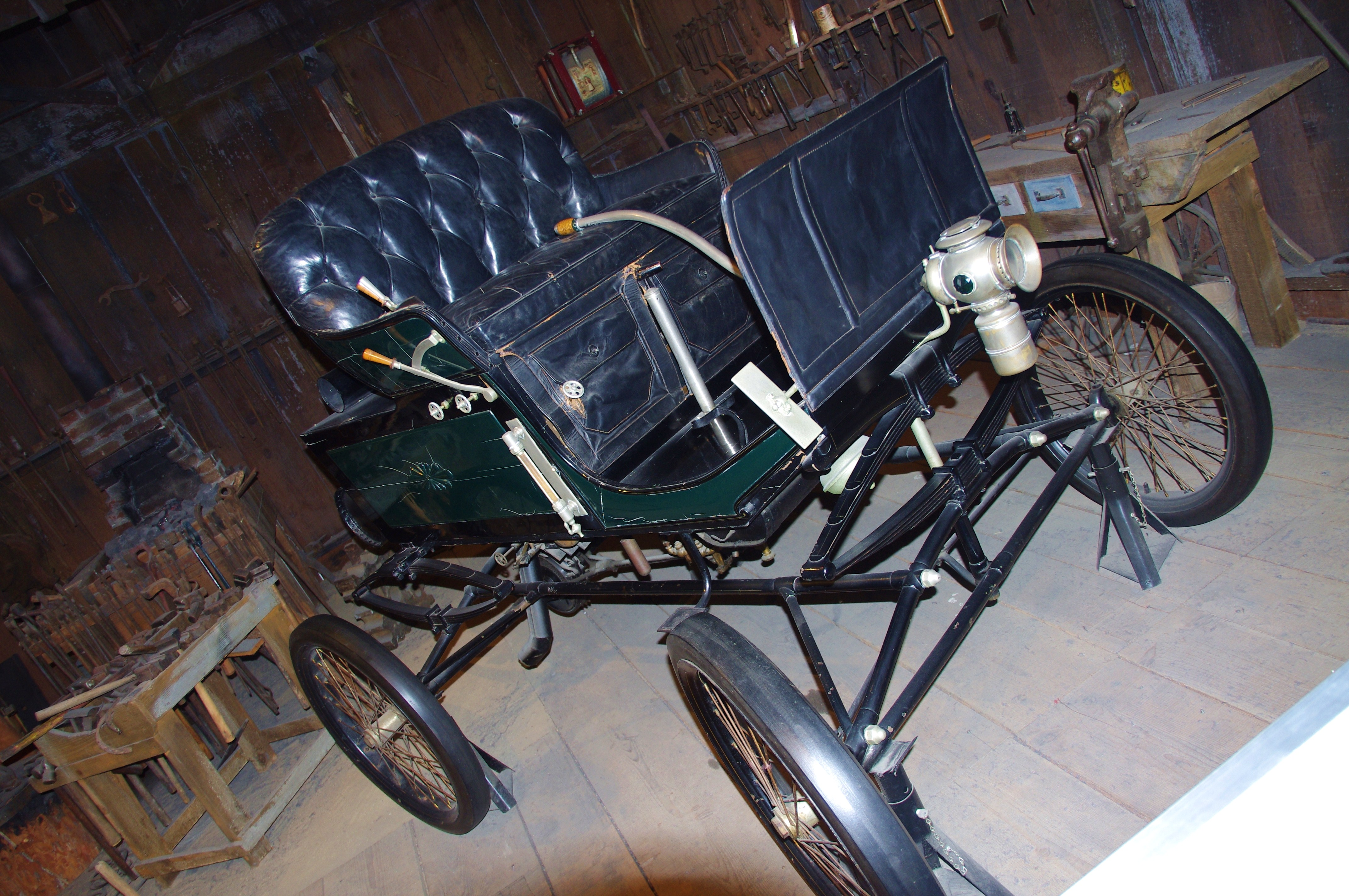 1901 steam powered car built by Carl Breer